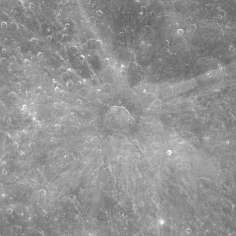 Ohm crater, on the far side of the moon, showing much of its bright ray system. Image width is approximately 620 km. Clementine UVVIS 750 nm mosaic.